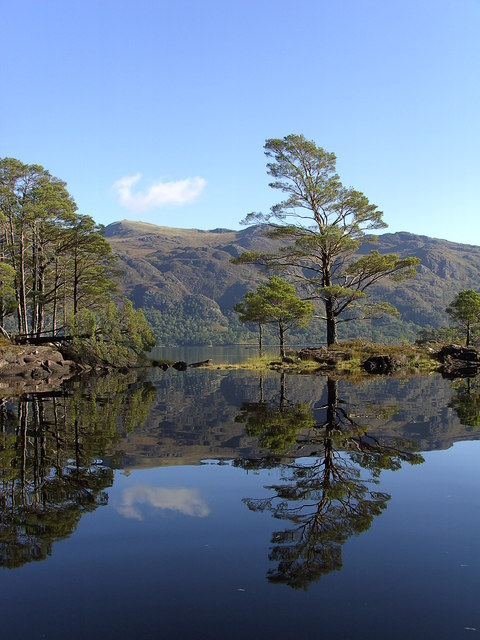 Eilean Ruairidh Mòr, Loch Maree. The islands on Loch Maree are remnants of the ancient Caledonia forest.